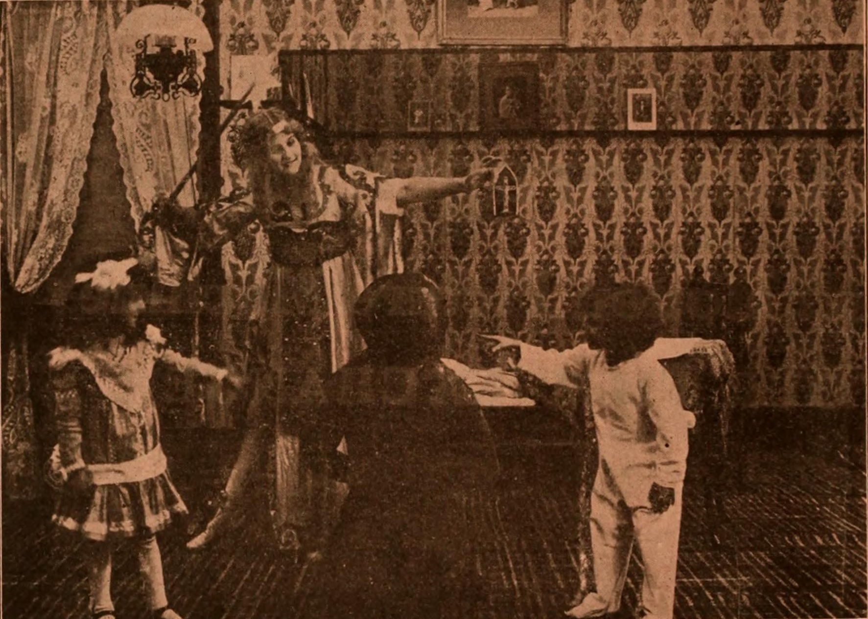 A film still from The Fairies' Hallowe'en by the Thanhouser Company from 1910.